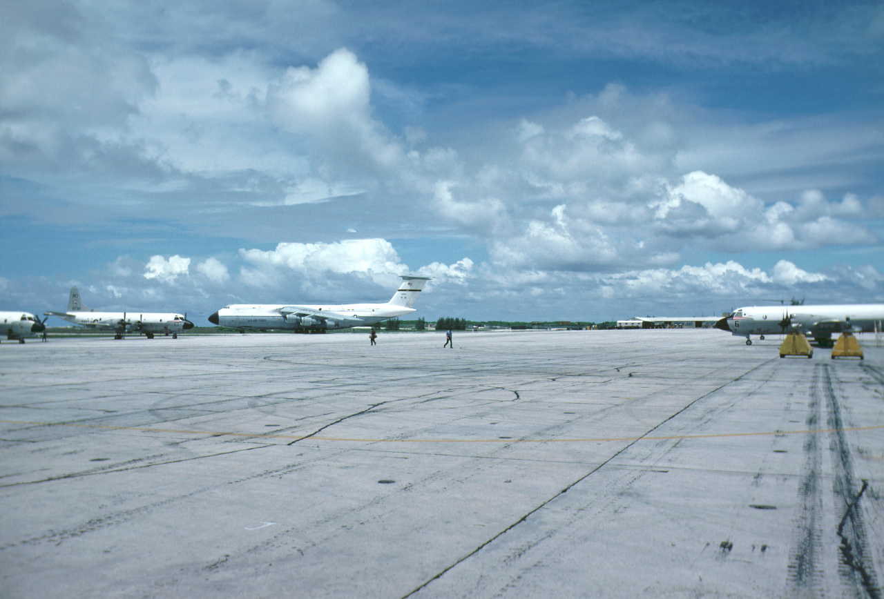 Naval Support Facility airfield on Diego Garcia. The C-5 Galaxy is taxing out for take-off.